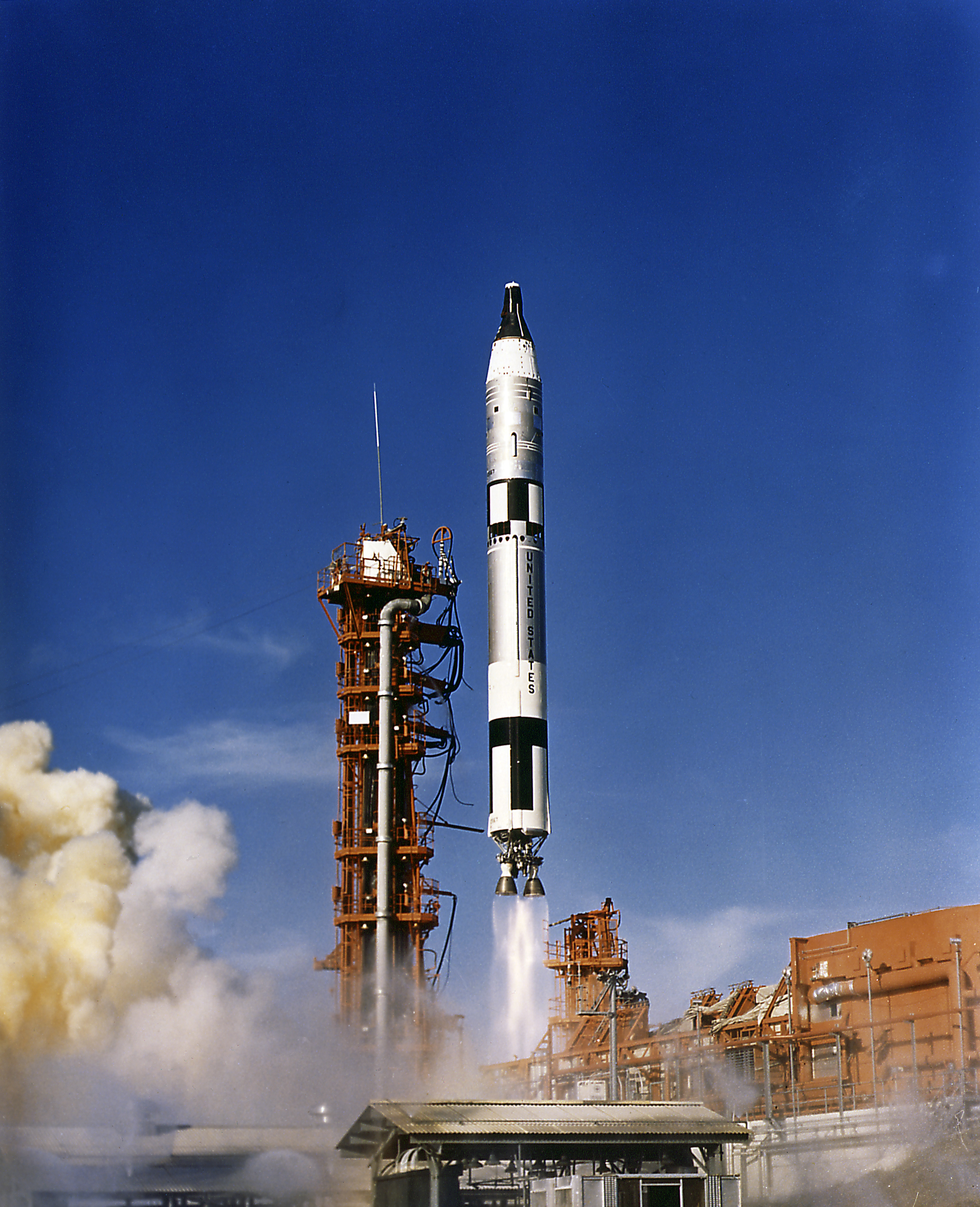 The Gemini 12 astronauts James Lovell and Edwin Aldrin lifted off aboard a Titan launch vehicle from the Kennedy Space Center on November 11, 1966, an hour and a half after their Agena target vehicle was orbited by an Atlas rocket. Launched atop an Atlas booster, the Agena target vehicle (ATV) was a spacecraft used by NASA to develop and practice orbital space rendezvous and docking techniques in preparation for the Apollo program lunar missions. The objective was for Agena and Gemini to rendezvous in space and practice docking procedures. An intermediate step between Project Mercury and the Apollo Program, the Gemini Program's major objectives were to subject two men and supporting equipment to long duration flights, to perfect rendezvous and docking with other orbiting vehicles, methods of reentry, and landing of the spacecraft.